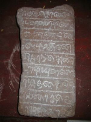 Pandyan era Tamil language inscriptions from Koneswaram Hindu temple in Trincomalee, Sri lanka. This Koneswaram inscription looks like Tamil script (which makes sense as well, given it's from the late Pandyan era).